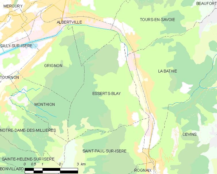 Map of French municipality